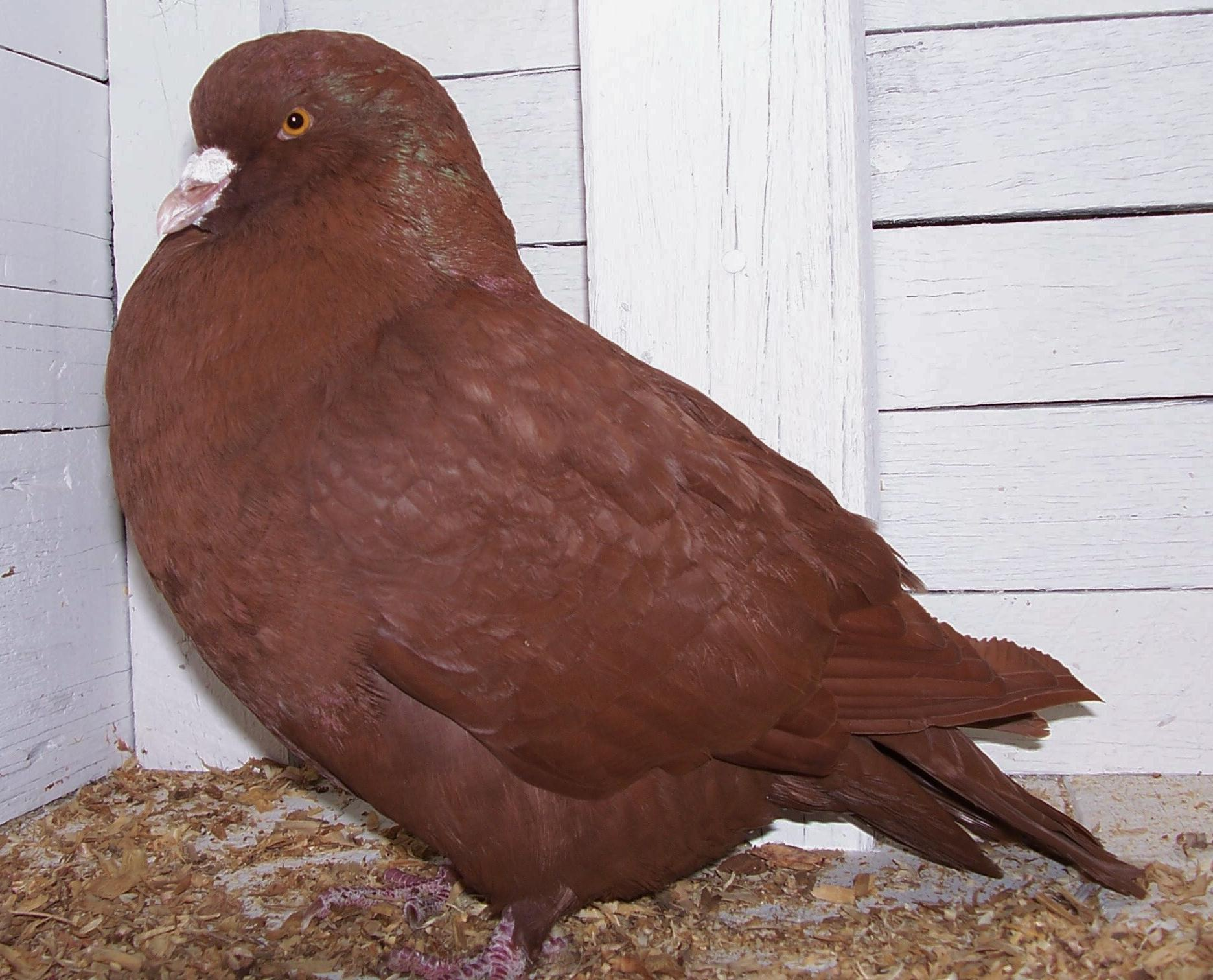 Champion Carneau pigeon at the 2008 Queensland State Show. The bird is a recessive red old cock owned by Doug Nothdurft.